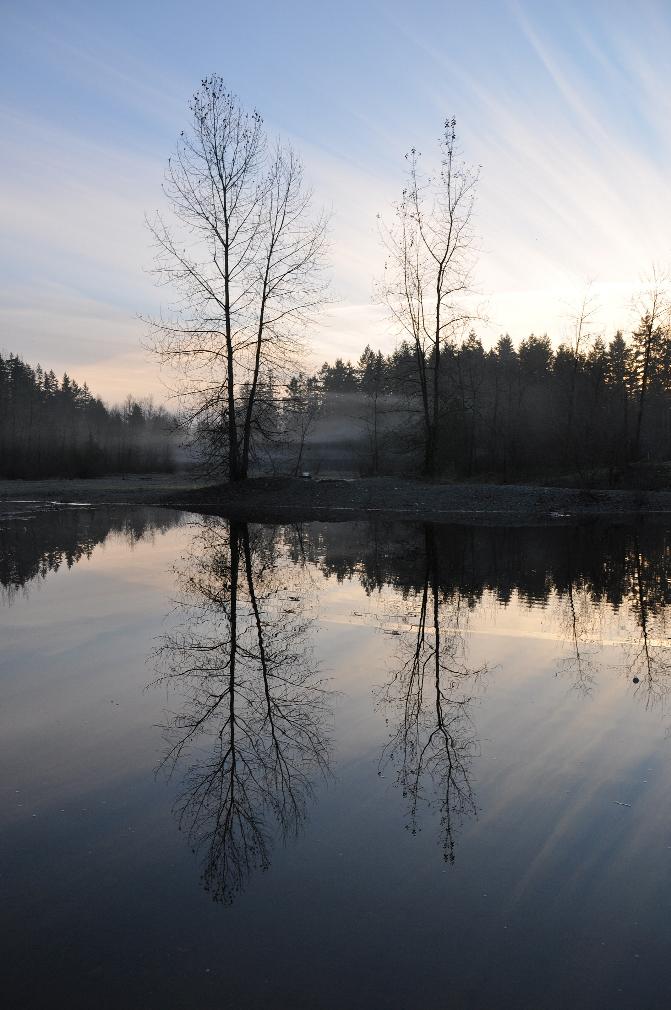 A small island in a wetland of Langley, BC at sunset. The tree is a trembling aspen (Populus tremuloides).